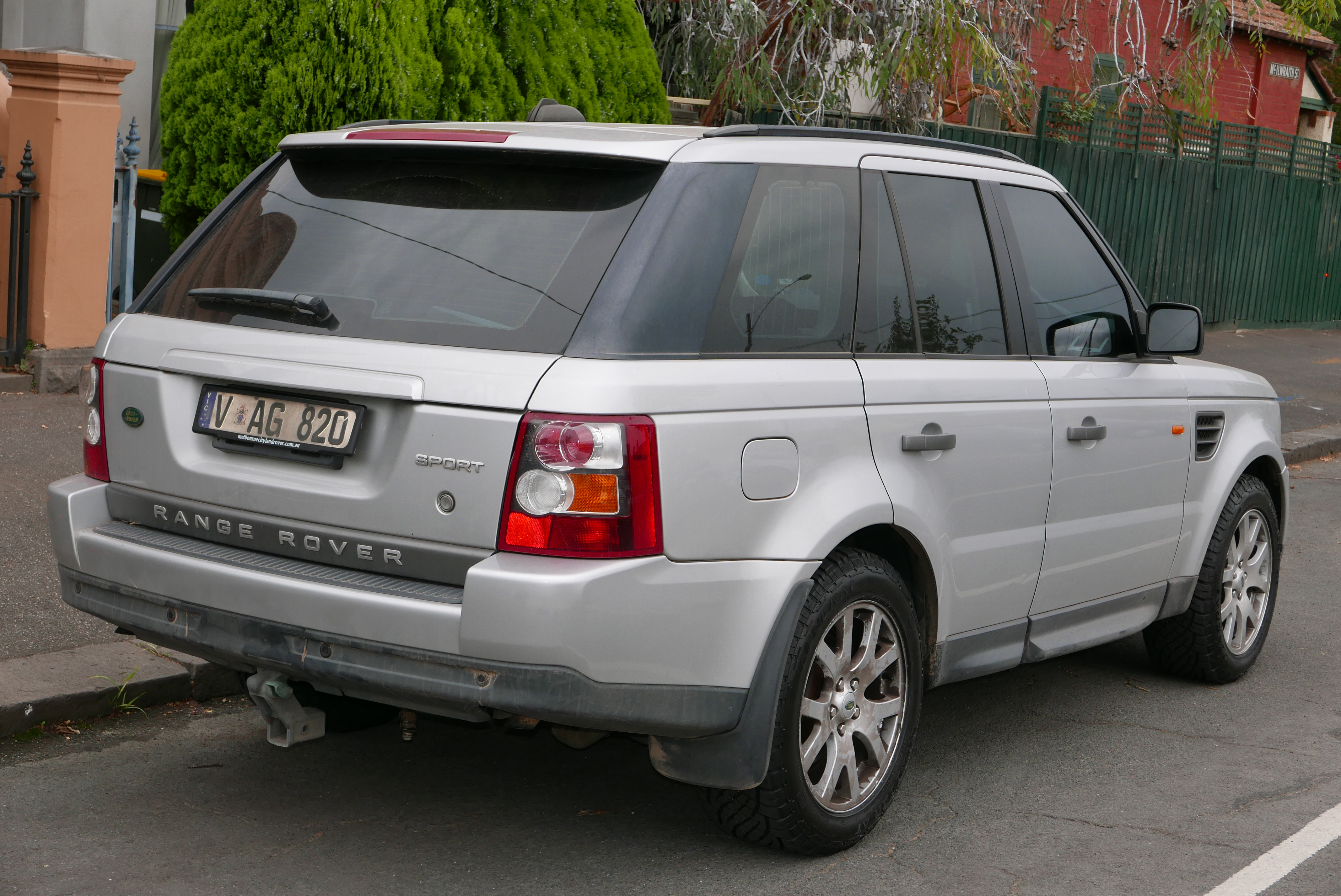 2005 Land Rover Range Rover Sport (L320 MY06) TDV6 wagon. Photographed in Princes Hill, Victoria, Australia. Vehicle registration enquiry resultsJurisdictionVictoriaRegistrationVAG820Chassis codeSALLSAA136A916925Engine code0058107Compliance date2005-09Year of manufacture2005